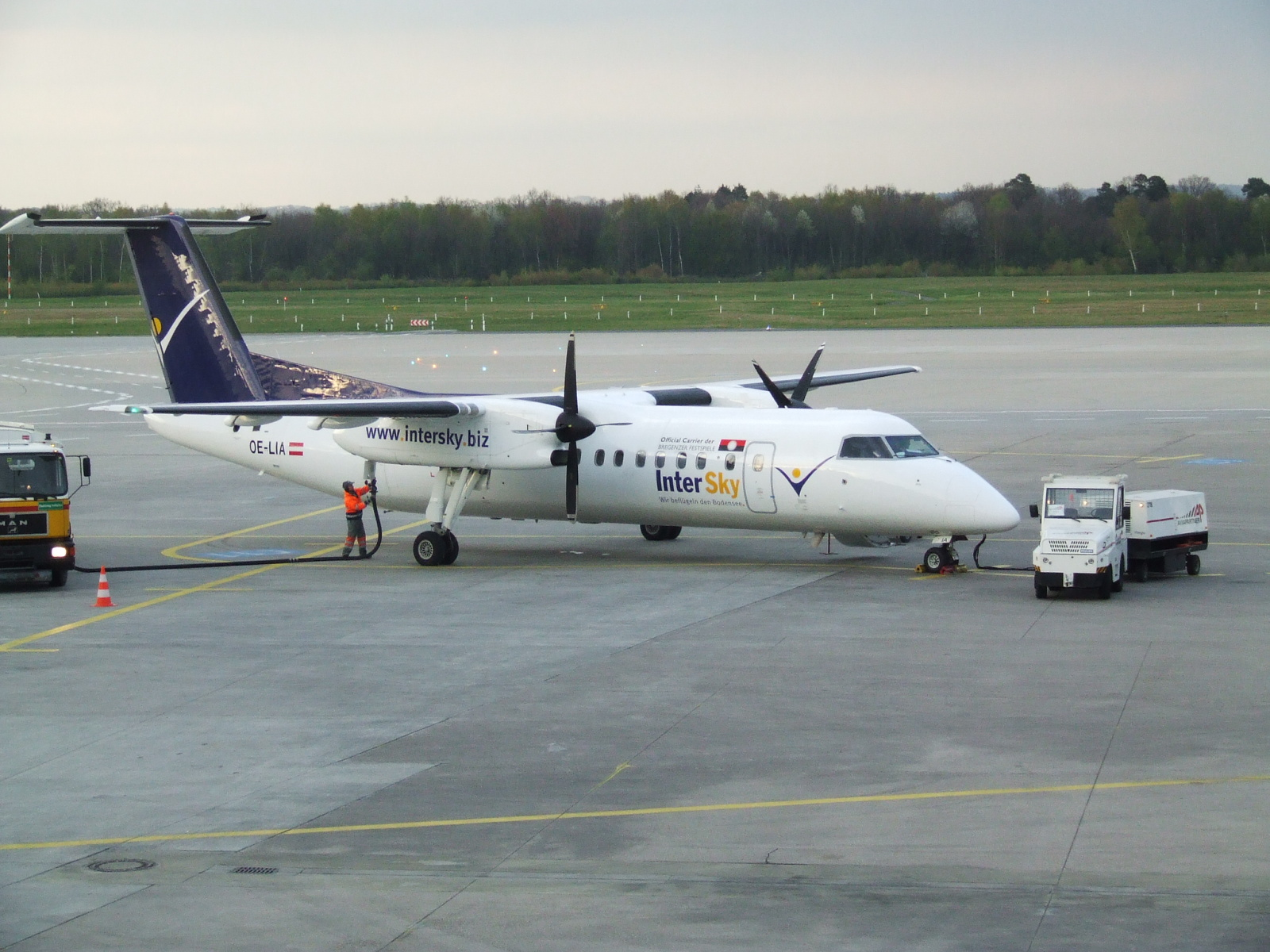 An Dash-8 Aircraft operated by InterSky at the Cologne-Bonn Airport